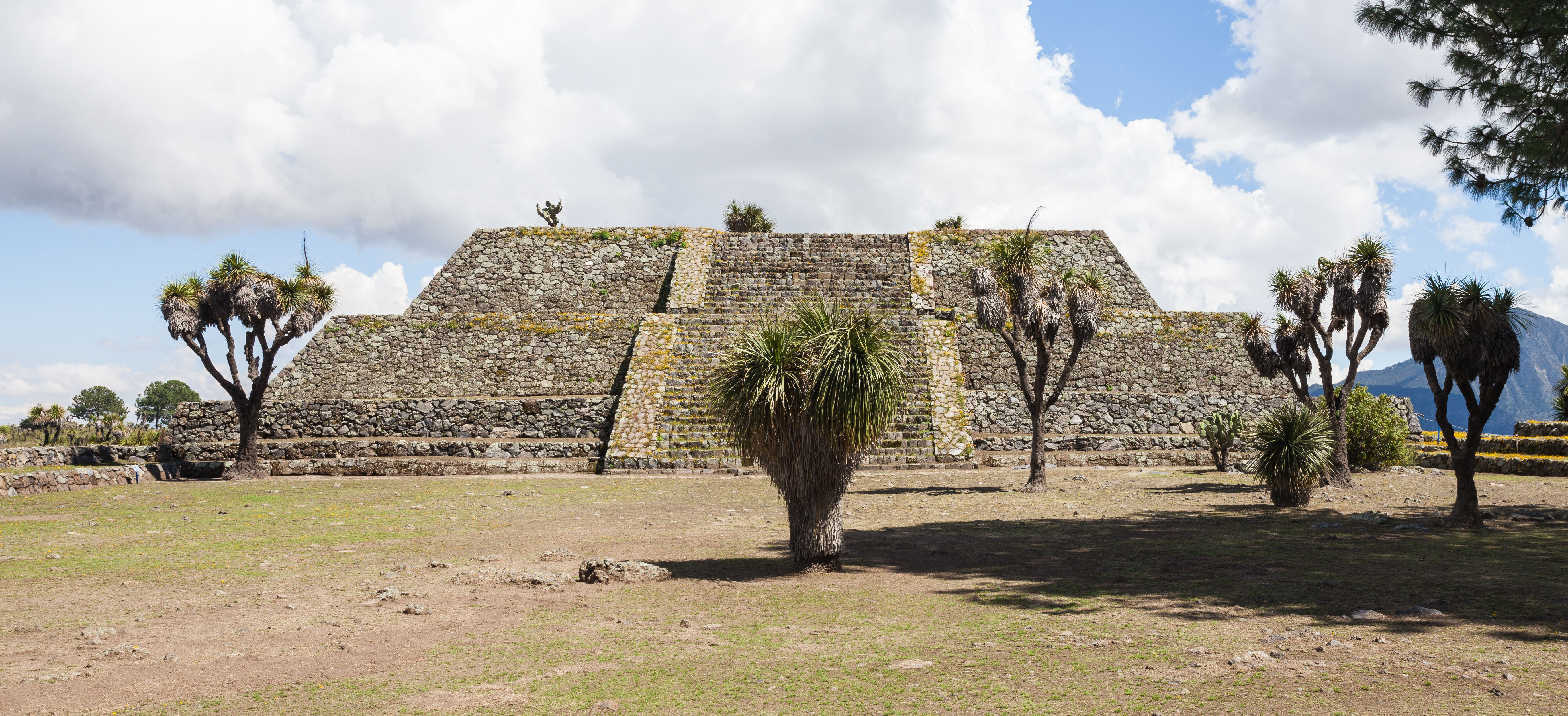 Archaeological area of Cantona, Puebla, Mexico